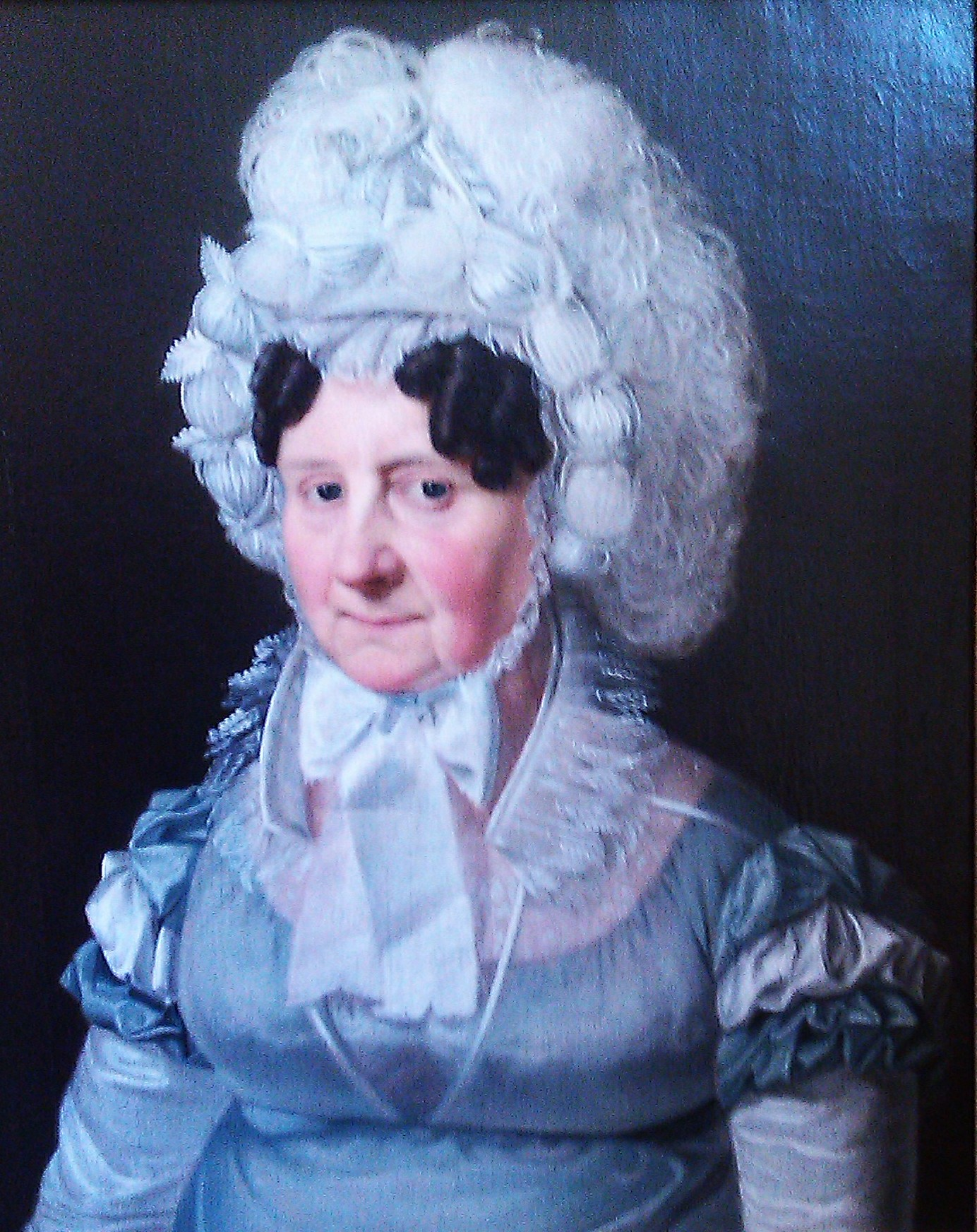 Cropped version of this image